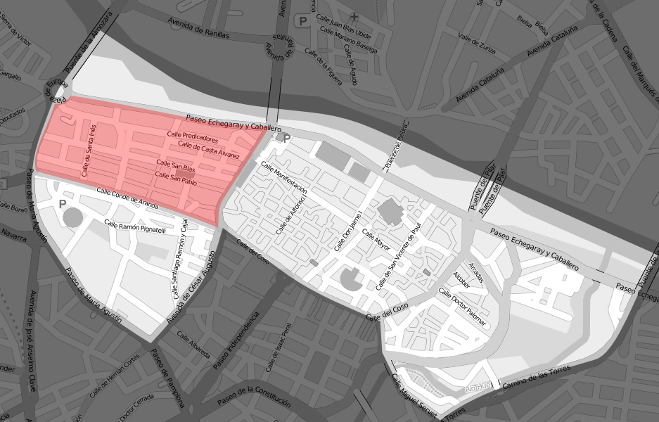 This map may be incomplete, and may contain errors. Don't rely solely on it for navigation.